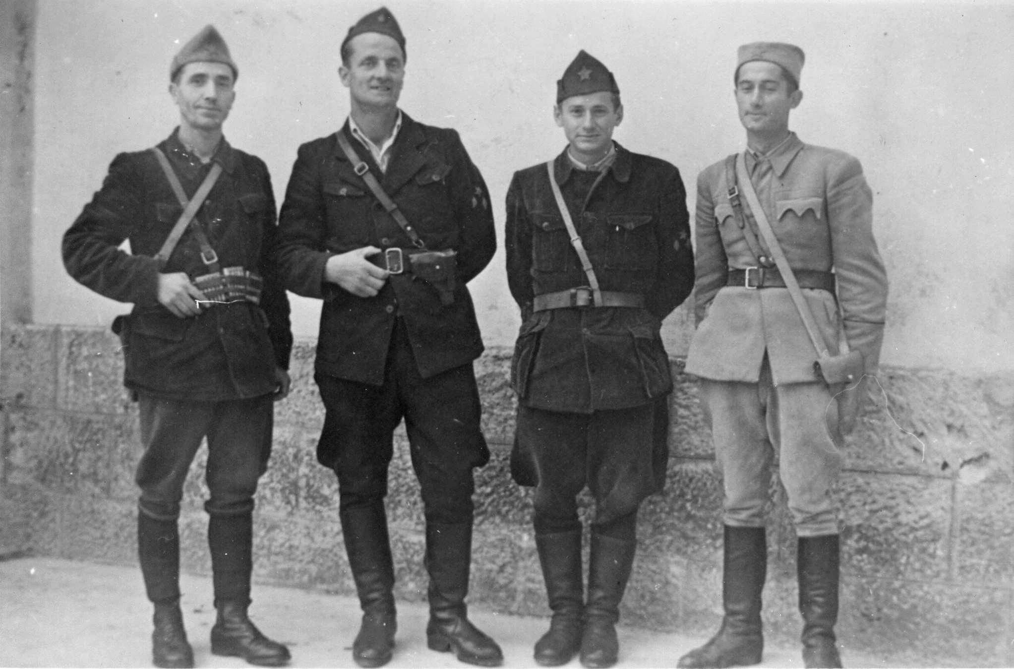 Štab IV operativne zone u Livnu septembra 1942. S leva na desno: Velimir Terzić, Vicko Krstulović, Ivica Kukoč i Maks Baće.